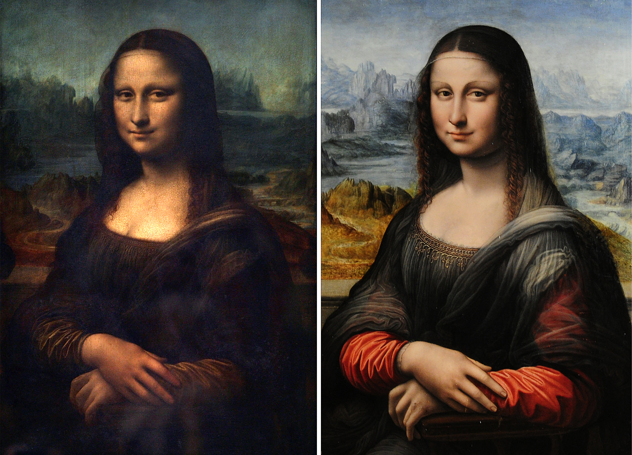 Mona Lisa by Leonardo da Vinci & the earliest copy of Mona Lisa found in the Prado (copied maybe by his student).